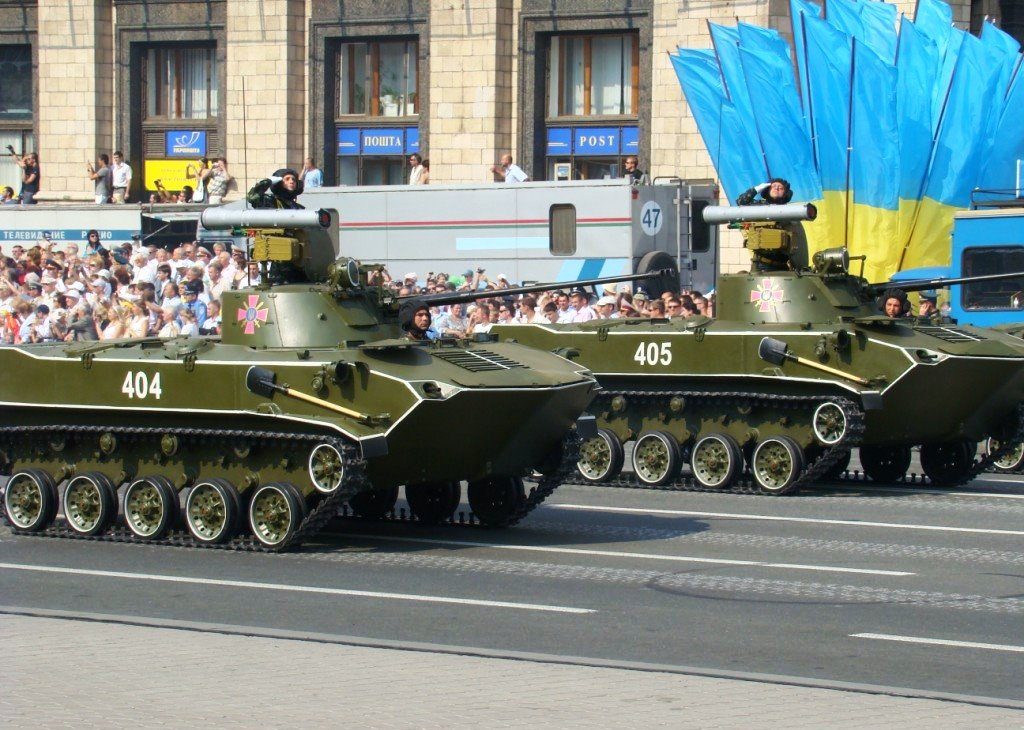 Ukrainian BMD tanks during the Independence Day parade in Kiev, Ukraine in 2008.